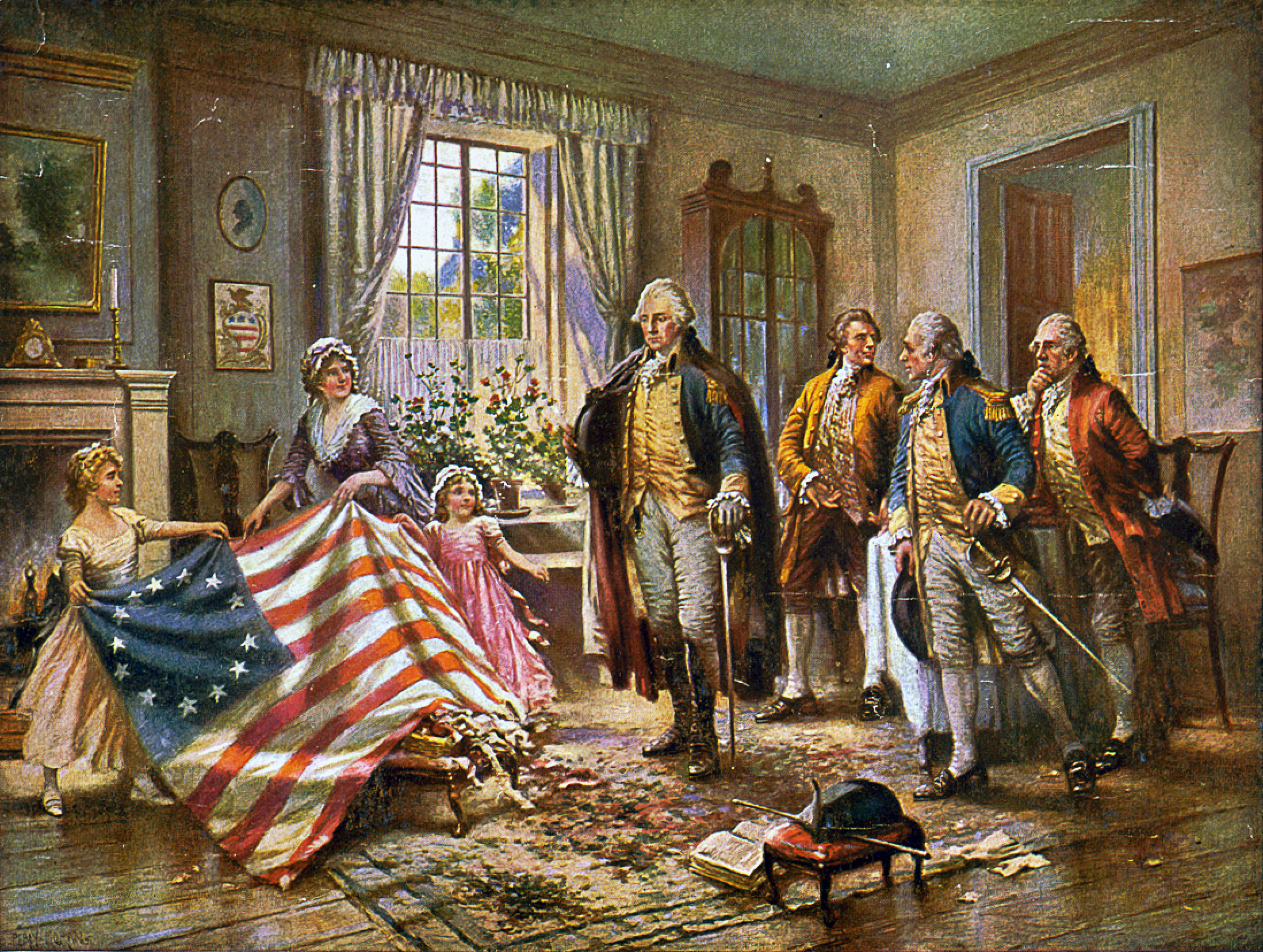 This image from c 1917 depicts what is presumed to be Betsy Ross and two children presenting the "Betsy Ross flag" to George Washington and three other men. The image is a version of a painting entitled "The Birth of Old Glory" by Percy Moran, from the Library of Congress: TITLE: The Birth of Old Glory / from painting by Moran. CALL NUMBER: LOT 4703 [P&P] REPRODUCTION NUMBER: LC-USZC4-2791 (color film copy transparency) LC-USZ62-1767 (b&w film copy neg.) SUMMARY: Betsy Ross(?) and two girls showing United States flag to George Washington and three other men. MEDIUM: 1 photomechanical print : color. CREATED/PUBLISHED: c1917. RELATED NAMES: Moran, Percy, 1862-1935, artist. NOTES: Copyright by the T.D.M. Co., Red Oak, Iowa, U.S.A. No. 393.